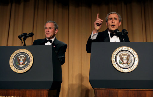 Photo of President George W. Bush and Steve Bridges at 2006 White House Correspondents Dinner.